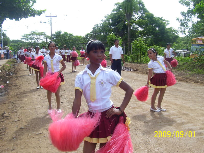 Patriotic Parade.- Cristo Rey School, Nicaragua